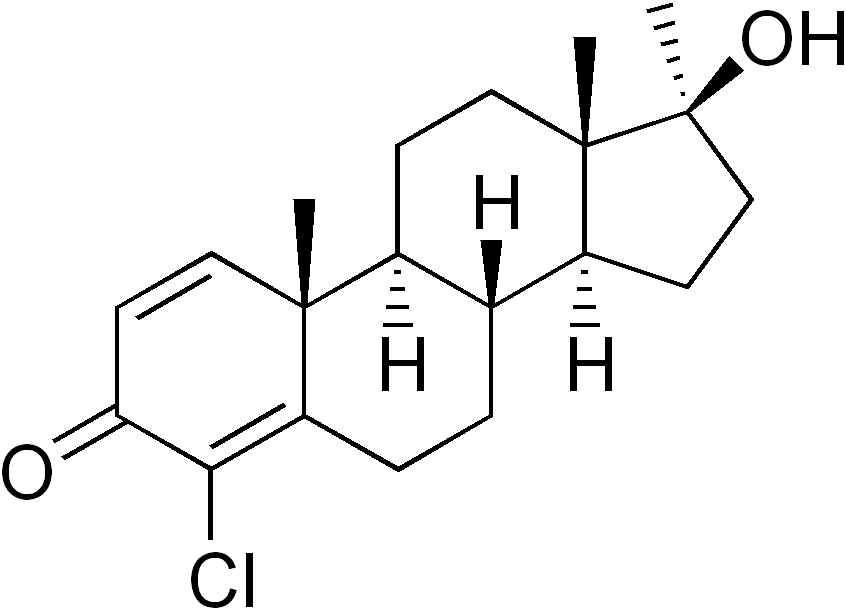 4-Chlorodehydromethyltestosterone